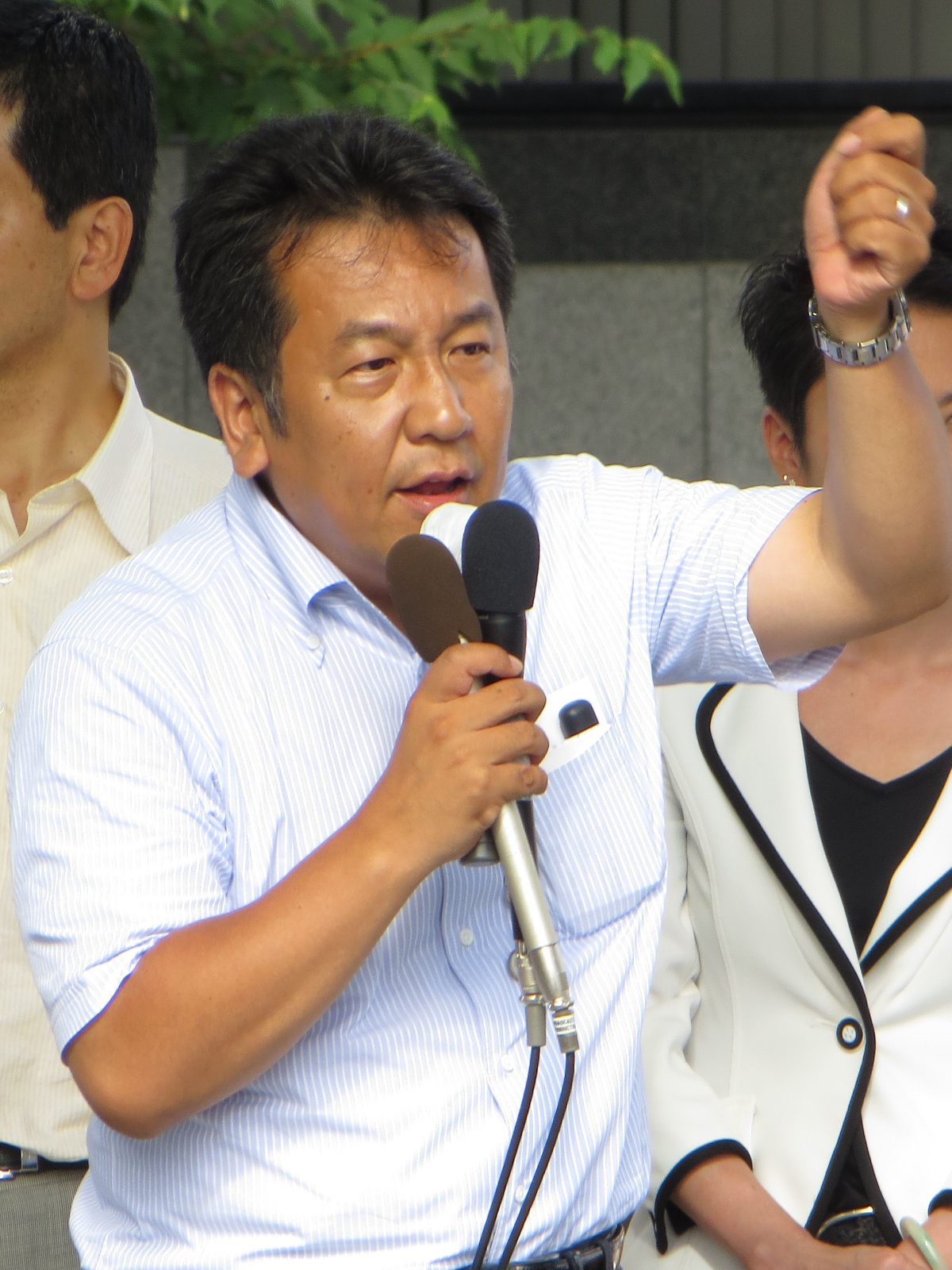 Yukio Edano (Member of the House of Representatives of Japan).